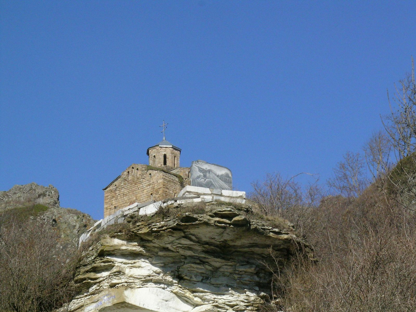 Shoana church (XI c.), Karachaevo-Cherkessia, Russia